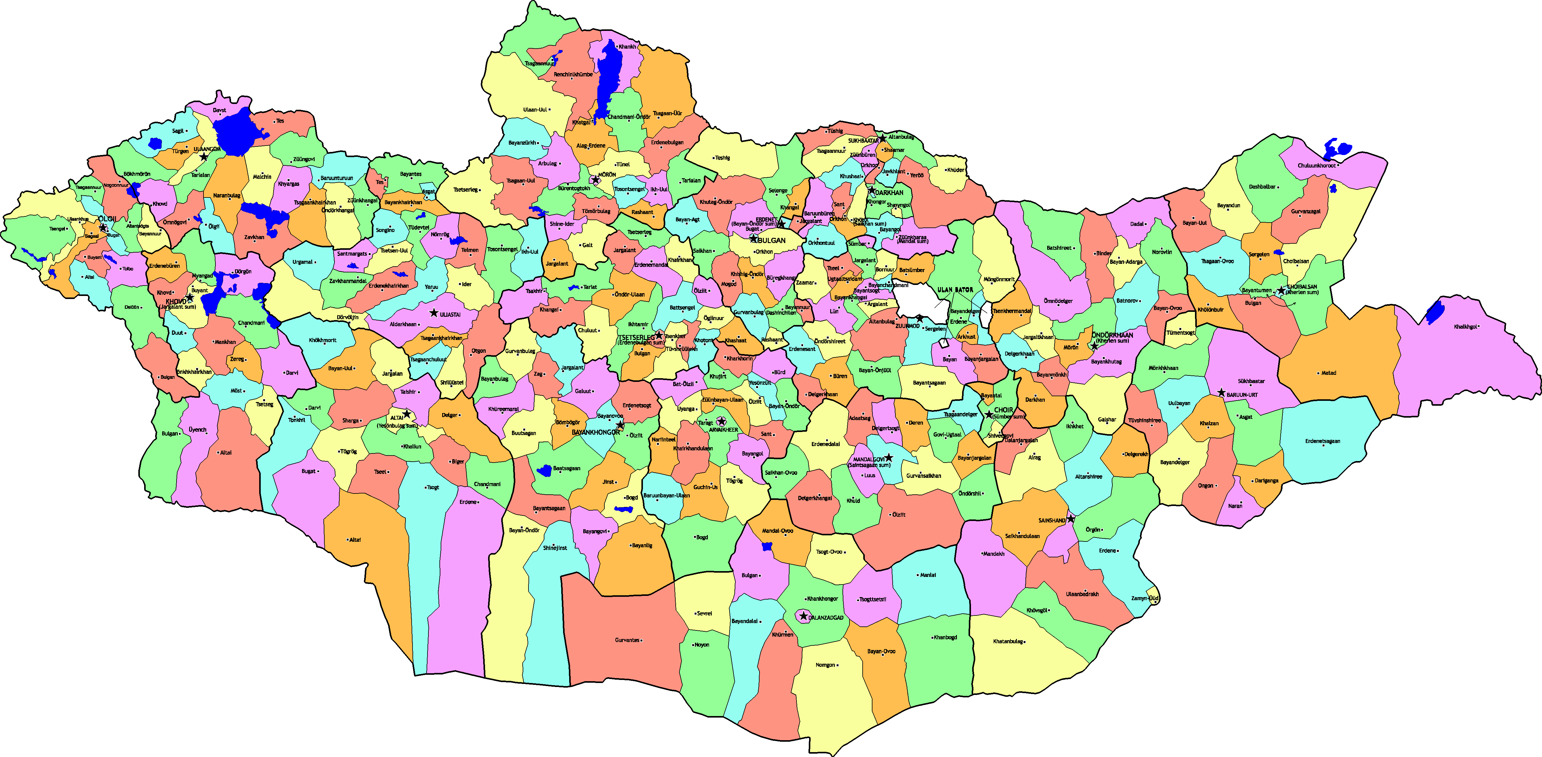 Mongolia sum map (with WP romanization) created by Bogomolov.PL 16:12, 15 March 2007 (UTC), using various mapping resources